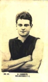 Photo of Bob Corbett taken in 1922